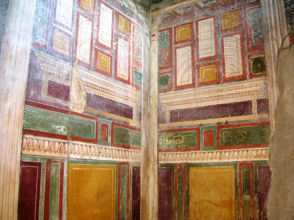 Fresco on a wall in Villa di Arianna at the ancient Stabiae, the modern Castellammare di Stabia in Campania, Italy.